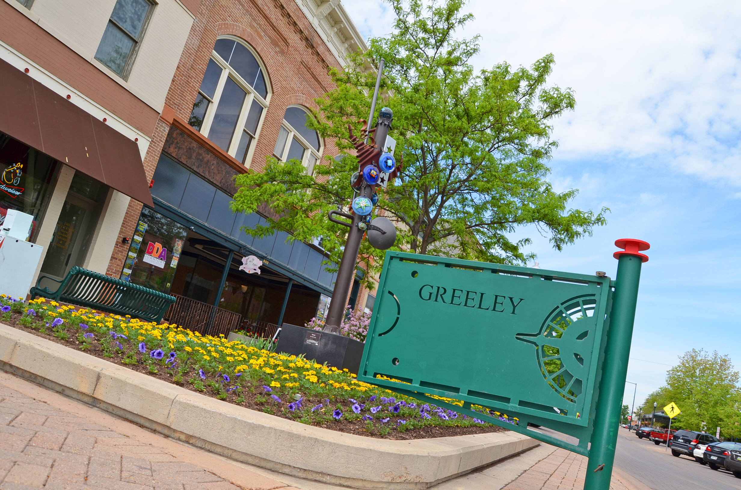 Springtime on the 9th Street Plaza in downtown Greeley, Colorado.